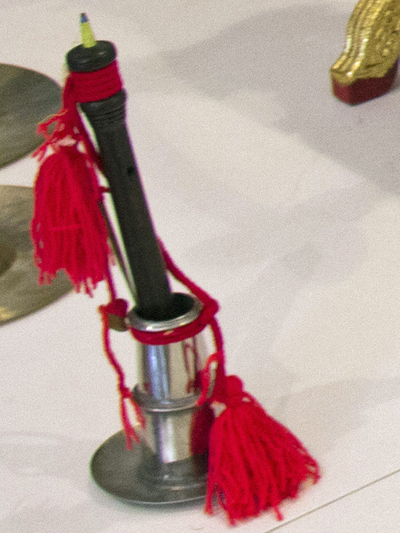 Burmese Hne